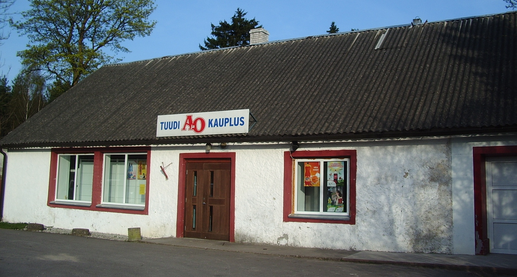 A & O shop in Tuudi, Lääne county